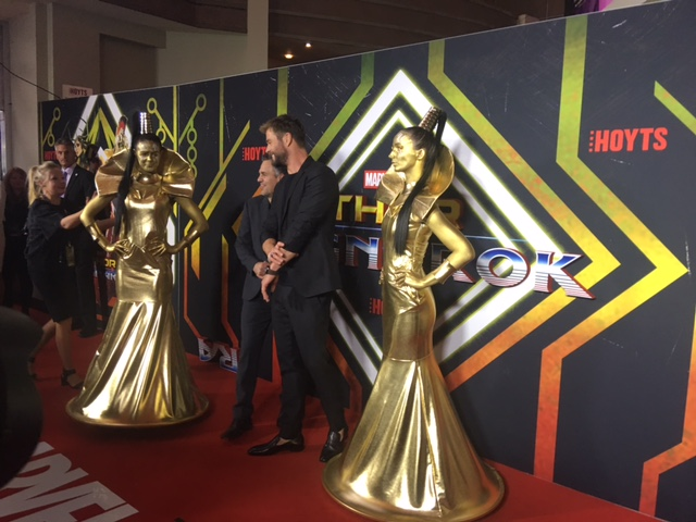 Mark Ruffalo (left) and Chris Hemsworth (right) at the Sydney premiere of Thor: Ragnarok.